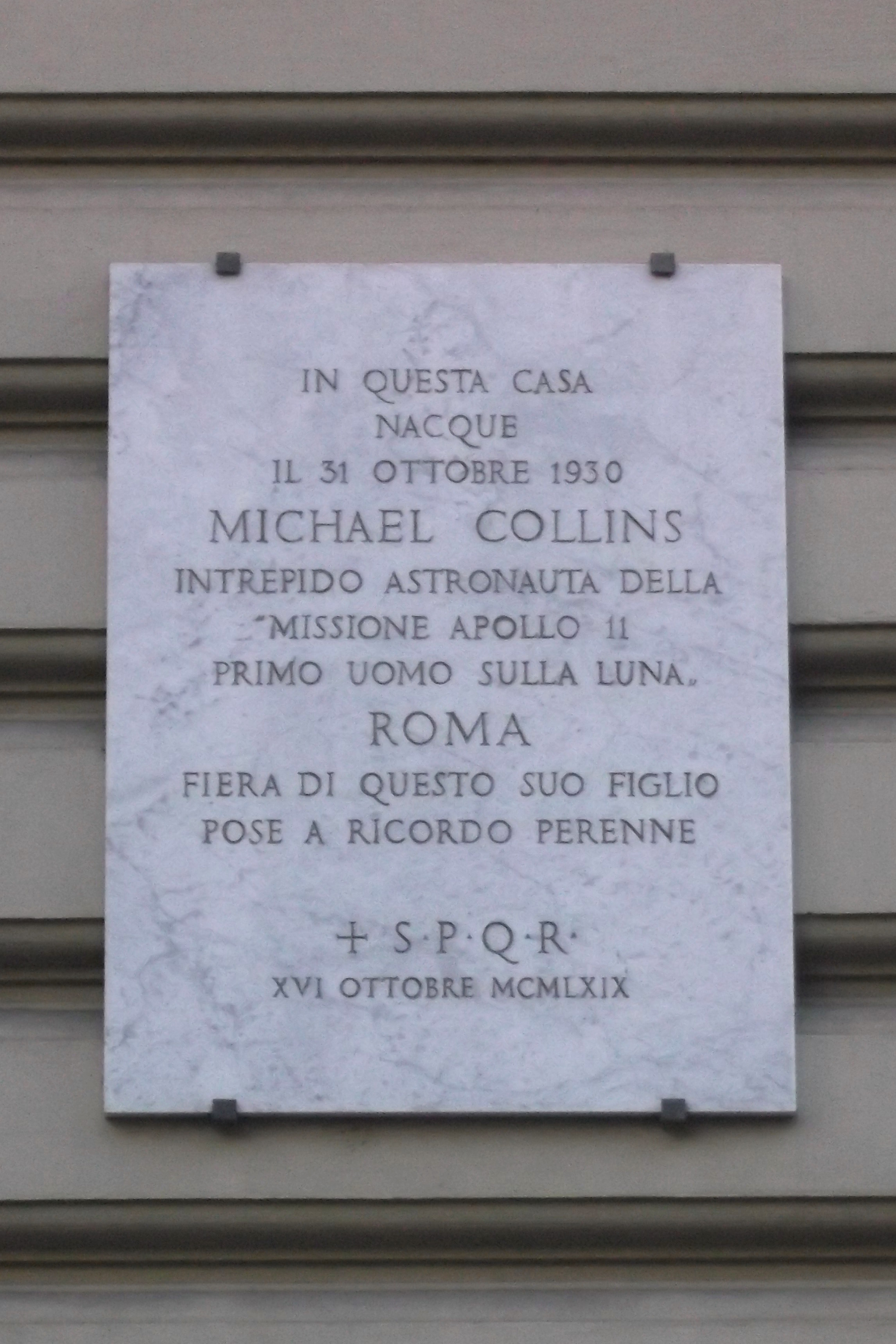 Here-was-born plaque celebrating the birthplace of the astronaut Michael Collins in Rome, Italy. The plaque reads: «In this house on 31 October 1930 was born Michael Collins, fearless astronaut of the Apollo 11 Space Mission, and first man on the Moon. Rome, proud mother of this son of hers, placed in perennial memory. S.P.Q.R., 16 October 1969»